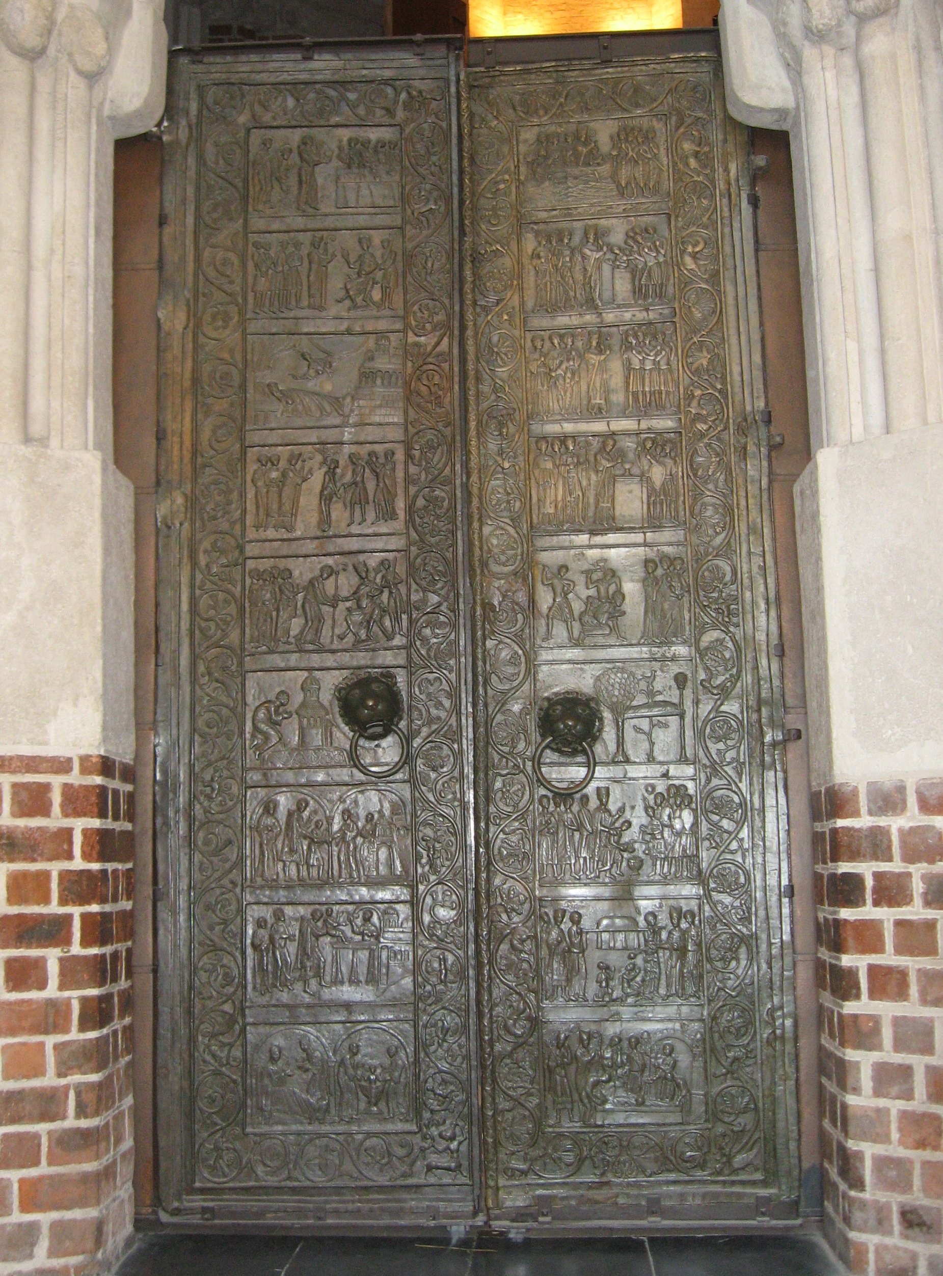 Gniezno Door